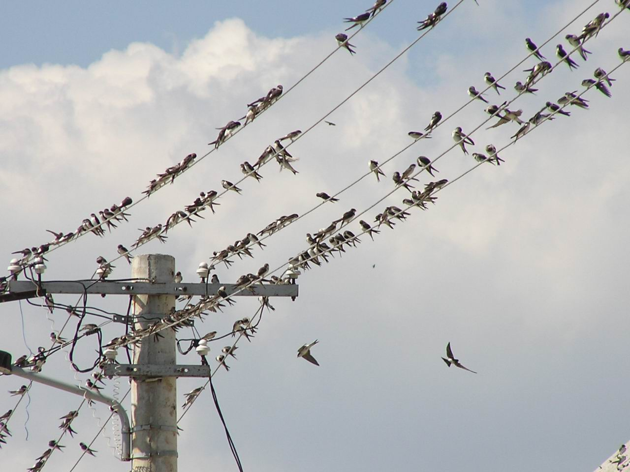 House Martin Delichon urbicum, Codlea, Romania